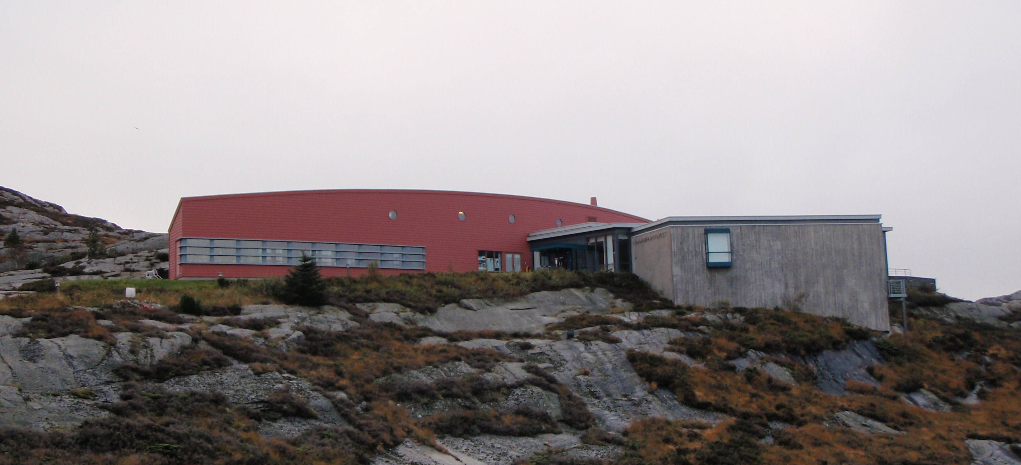 Nordsjøfartsmuseet på Telavåg